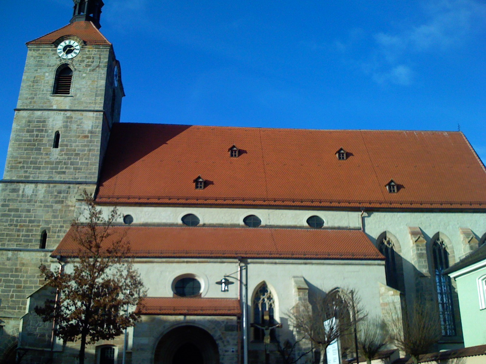 Catholic church in Hahnbach, Bavaria